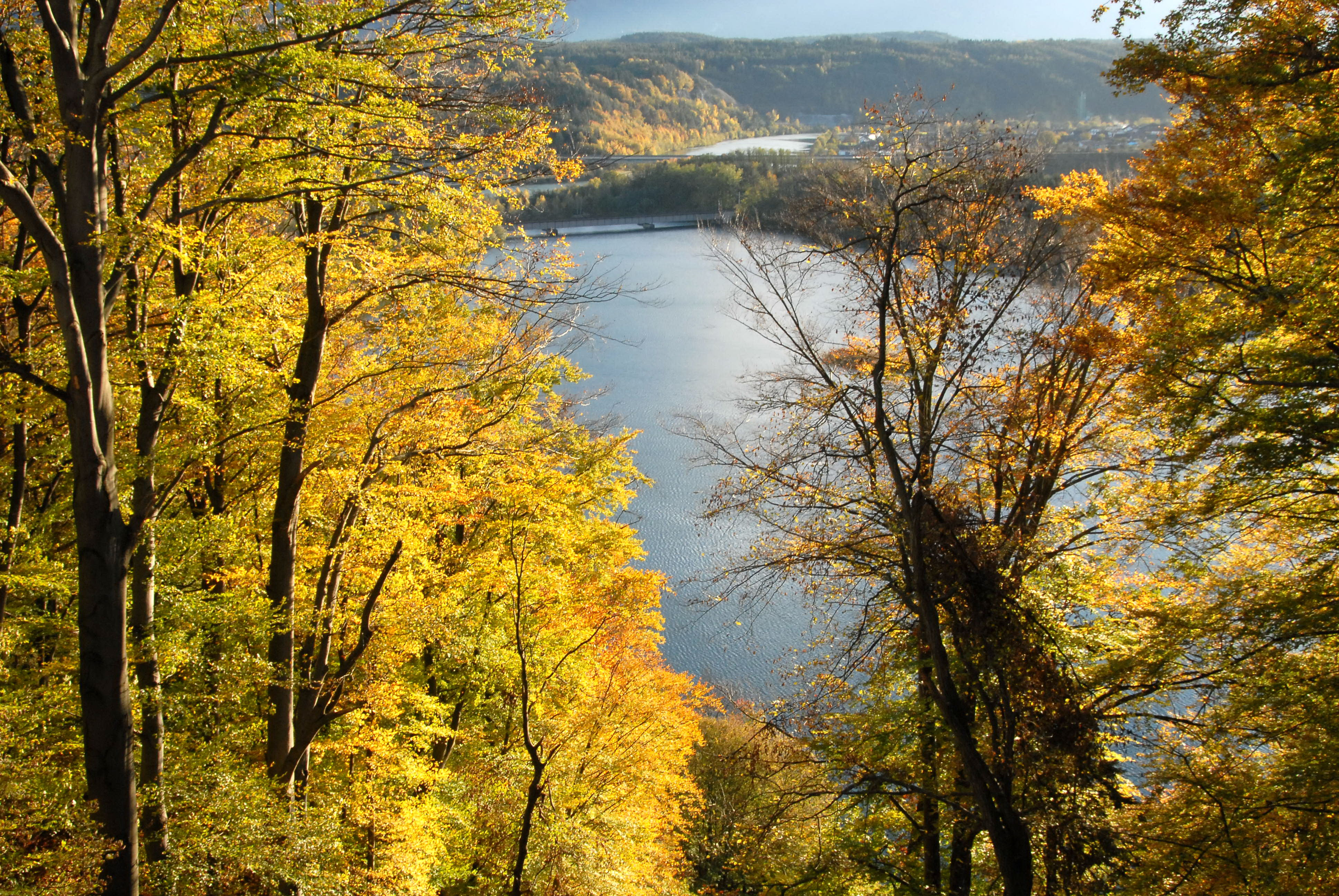 Autumn mood on a sinuosity of the river Drava, municipality Wernberg, district Villach Land, Carinthia, Austria, EU